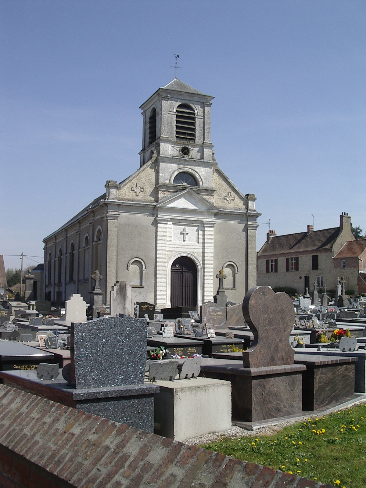 Churche of Moulle (Pas-de-Calais, France)